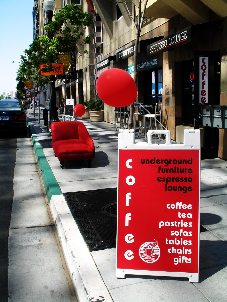 Coffe Lounge at the Little Itally, San Diego, California